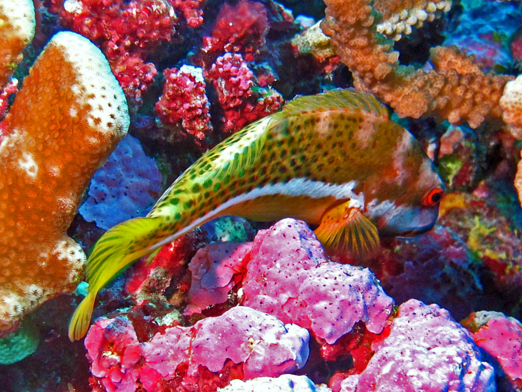 Paracirrhites hemistictus from French Polynesia. Pale morph